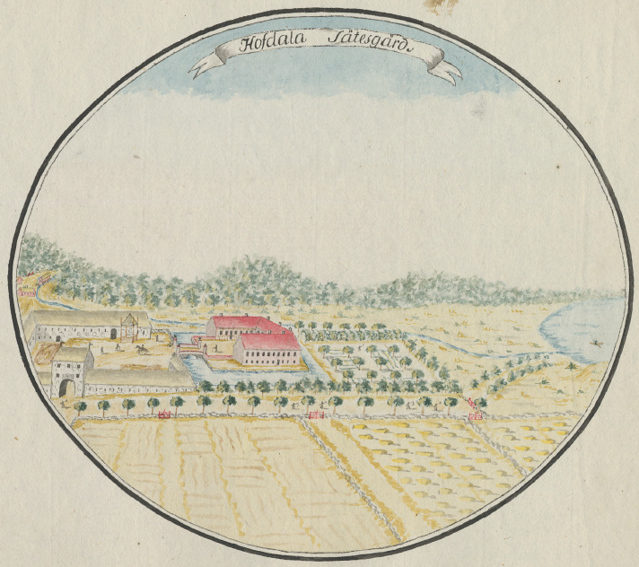 Hovdala Castle (Scania, Sweden) circa 1780